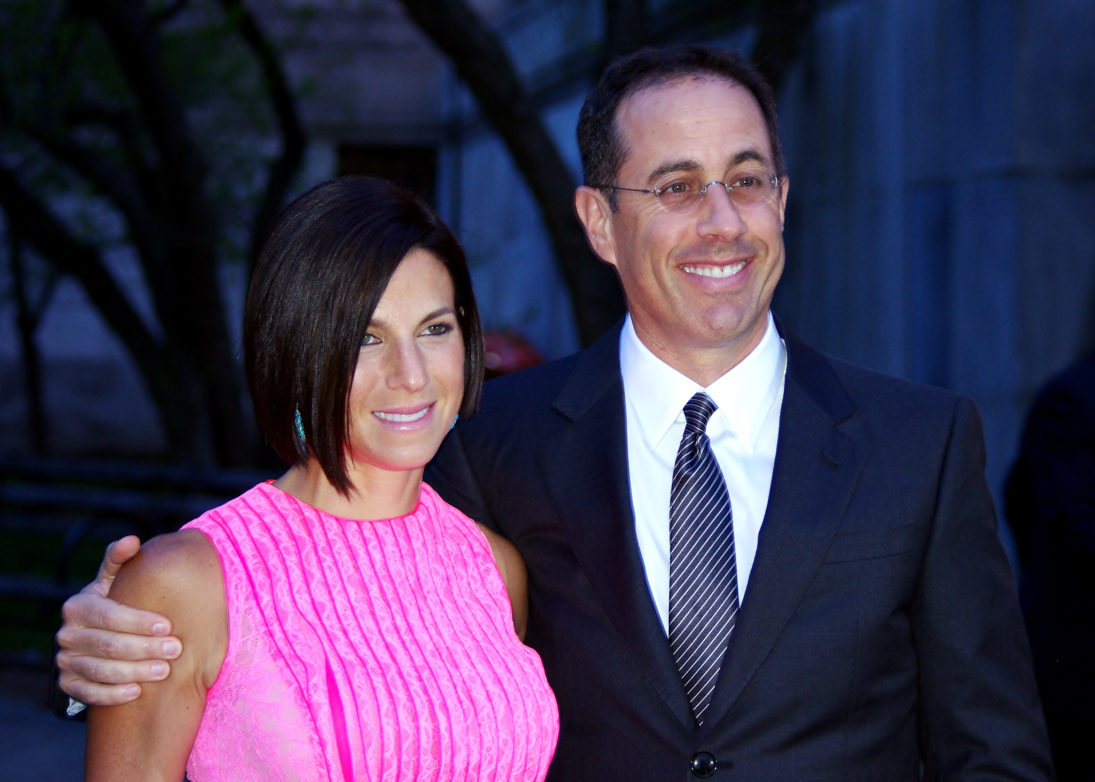 Jessica Seinfeld and Jerry Seinfeld at the Vanity Fair party celebrating the 10th anniversary of the Tribeca Film Festival.